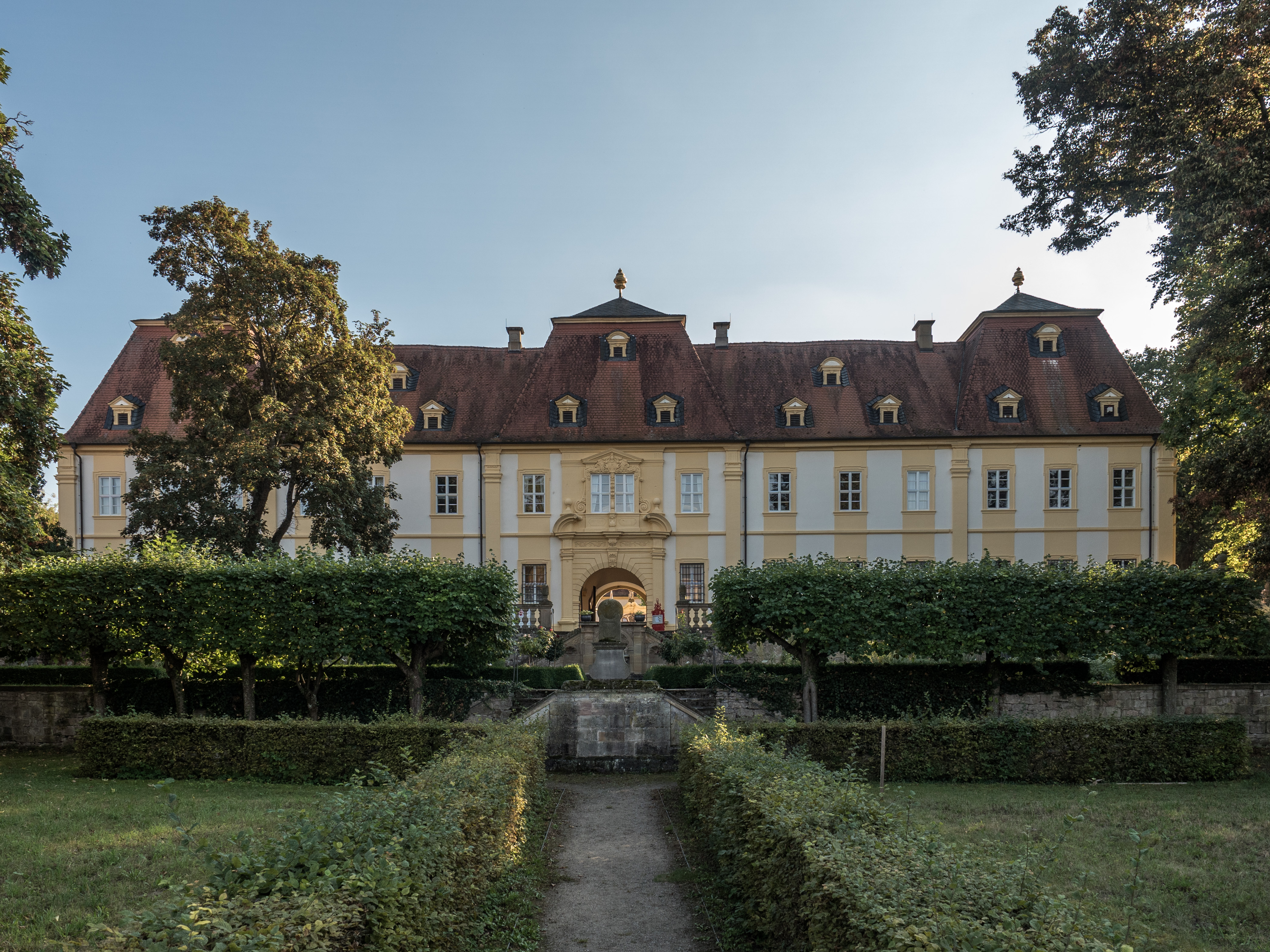 Castle Oberschwappach in Lower Franconia